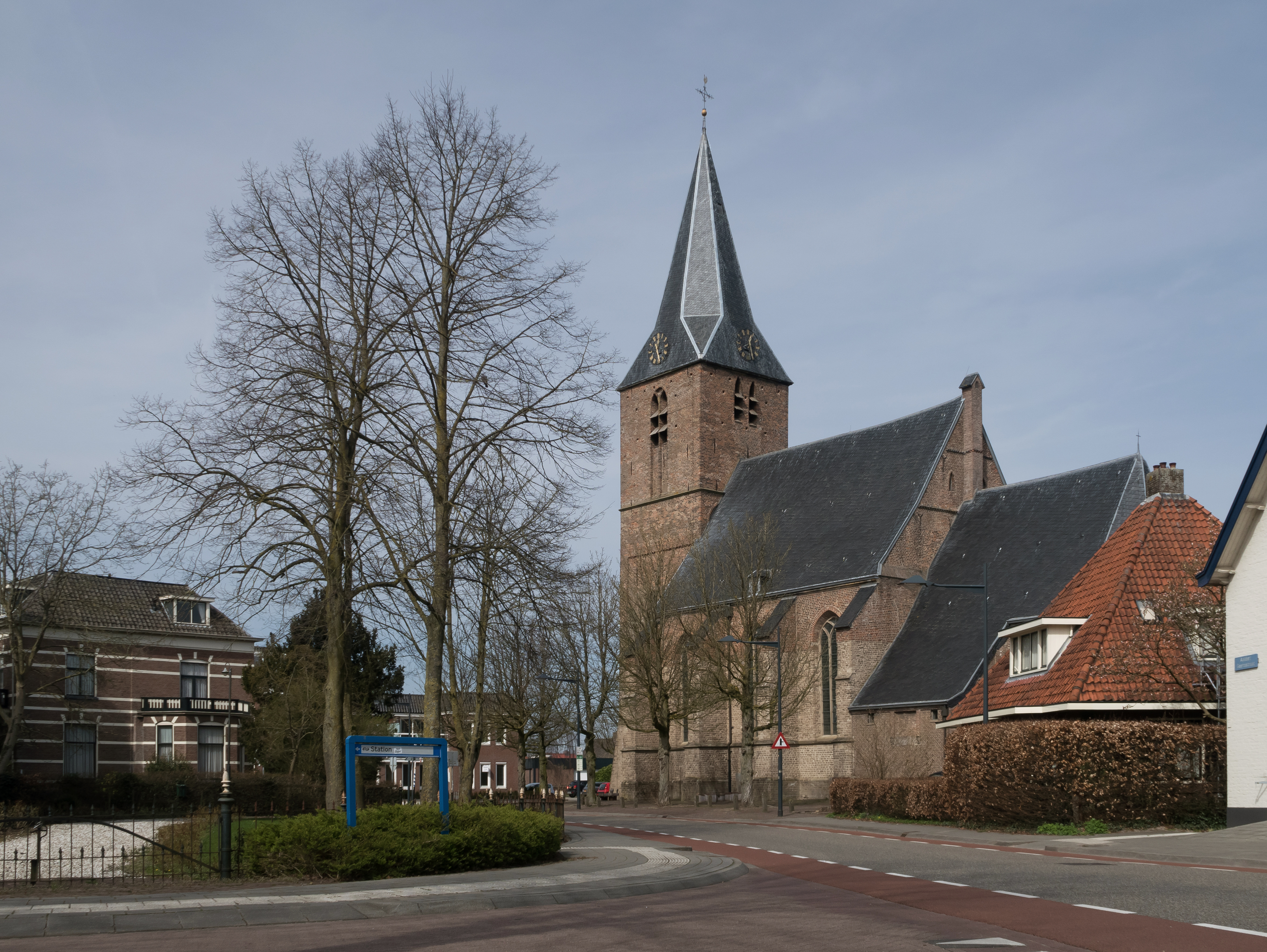 Olst, reformed church